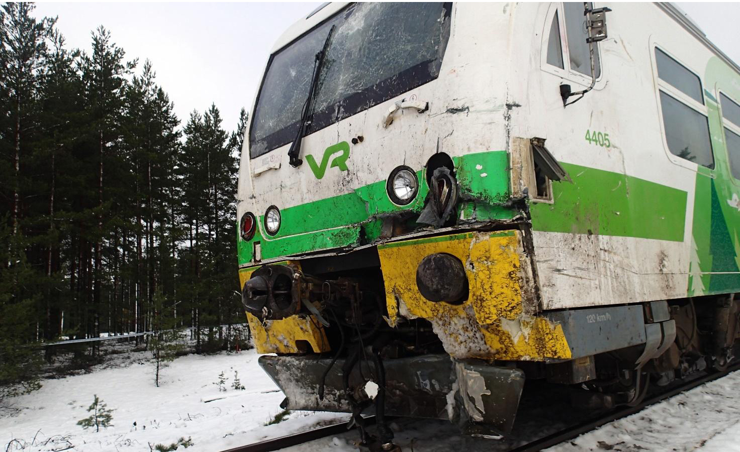 Photograph of the damages of a commuter train (VR Class Dm12, unit No. 4405) after the collision with an army vehicle in Raseborg, Skogsby.